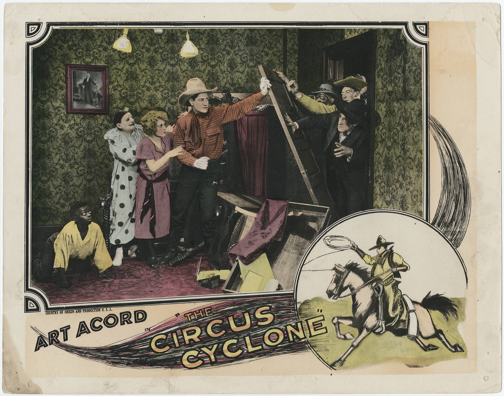 Lobby card for the film The Circus Cyclone (1925) starring Art Acord. Approximately 28 x 35.5 cm. Part of the Western silent films lobby card collection, 1912-1930. Cite as Yale Collection of Western Americana, Beinecke Rare Book & Manuscript Library, Yale University. Bibliographic Record Number 2019844. View our Record Permalink.